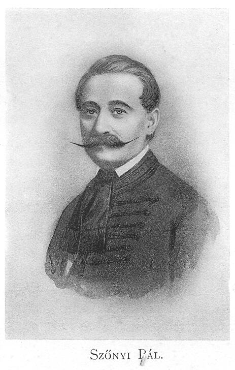 Portrait of Pál Szőnyi